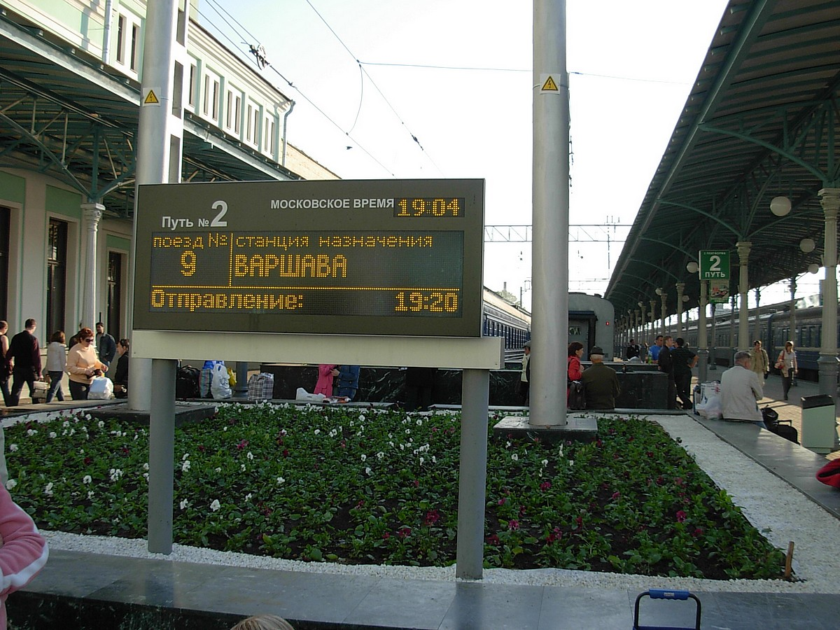 Information display on "Polonez" train from Moscow to Warsaw departing Beloruskij Vokazal